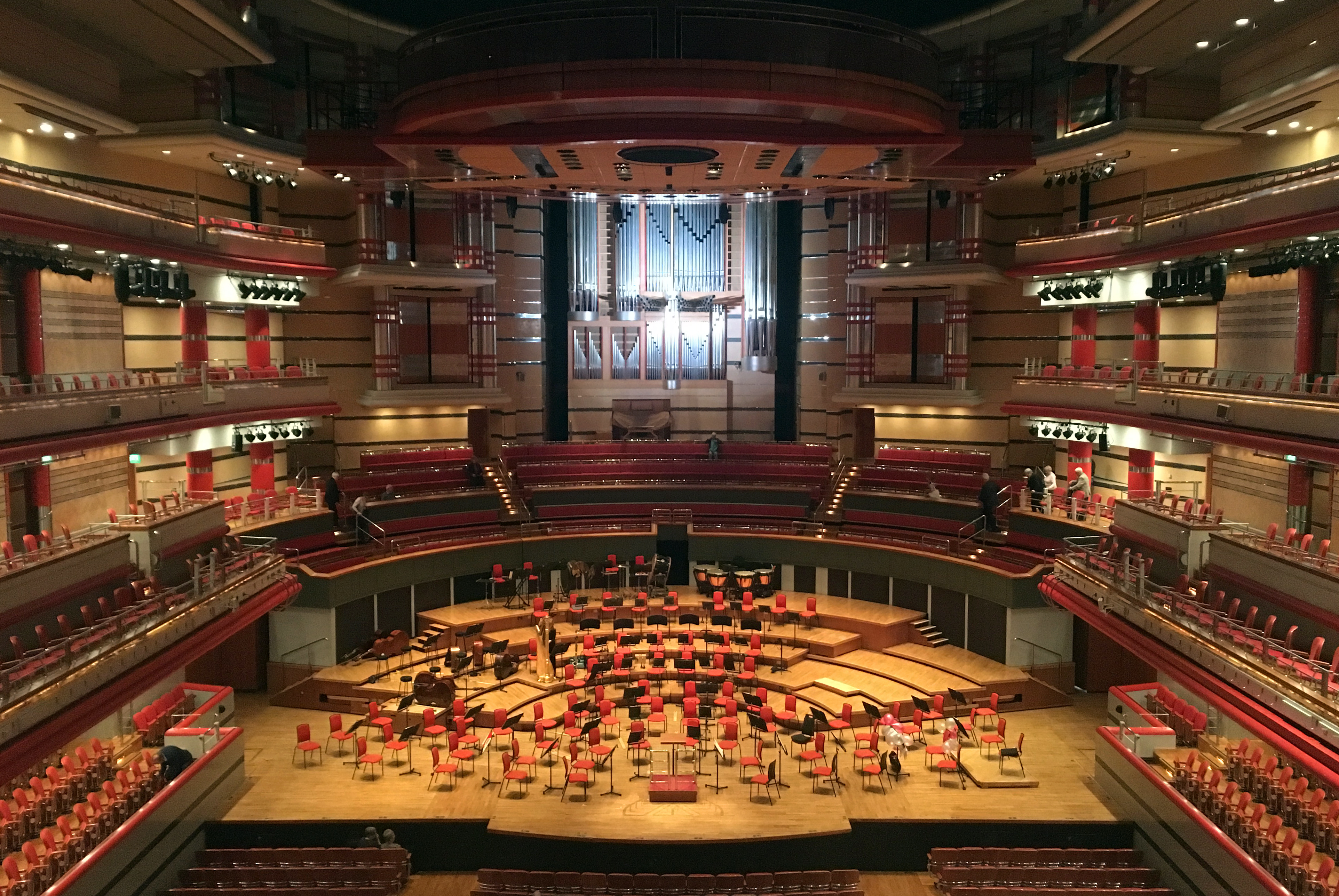 Symphony Hall, Birmingham from the Upper Circle before a CBSO concert in September 2017